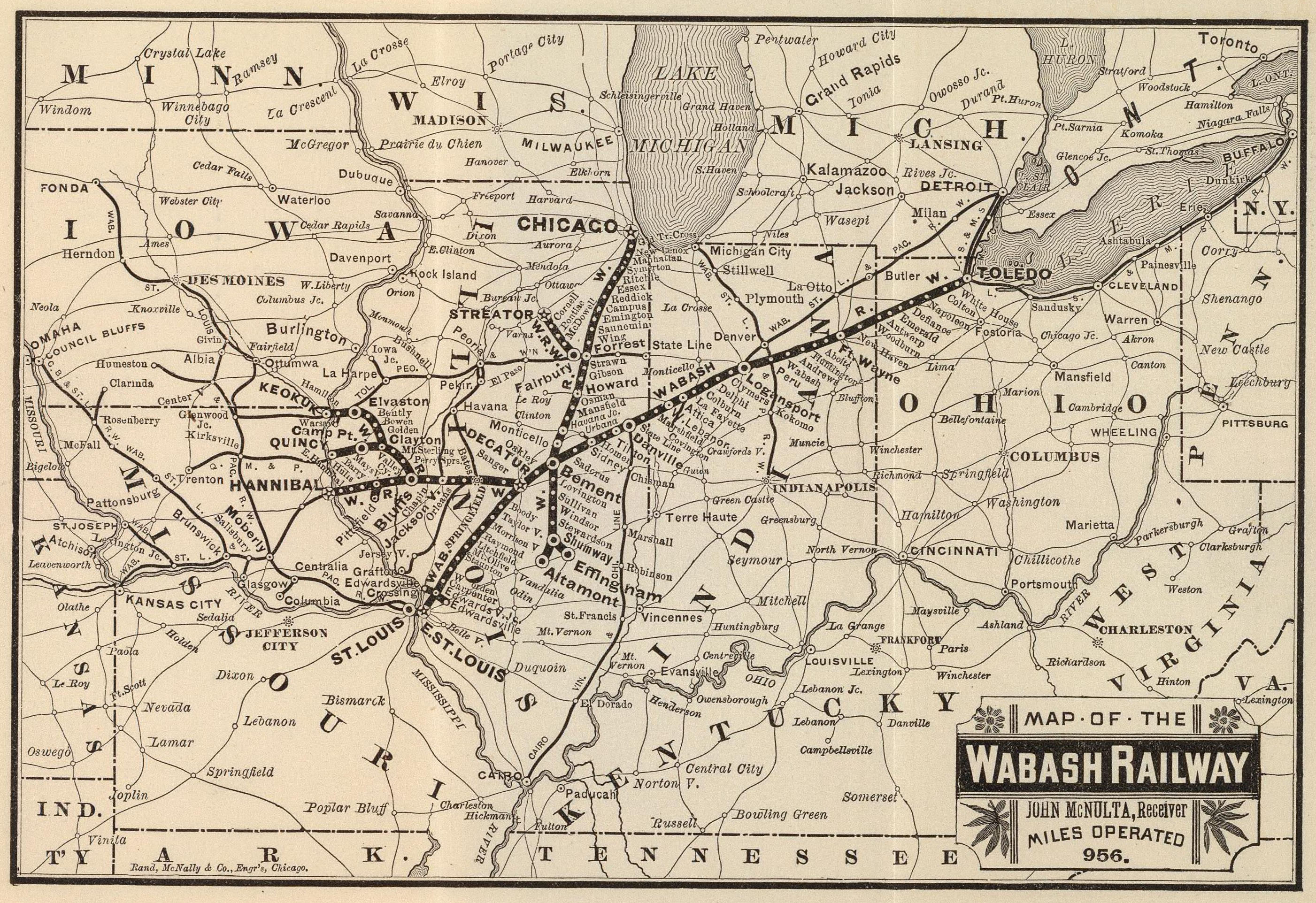 1887 map of the Wabash, St. Louis and Pacific Railway